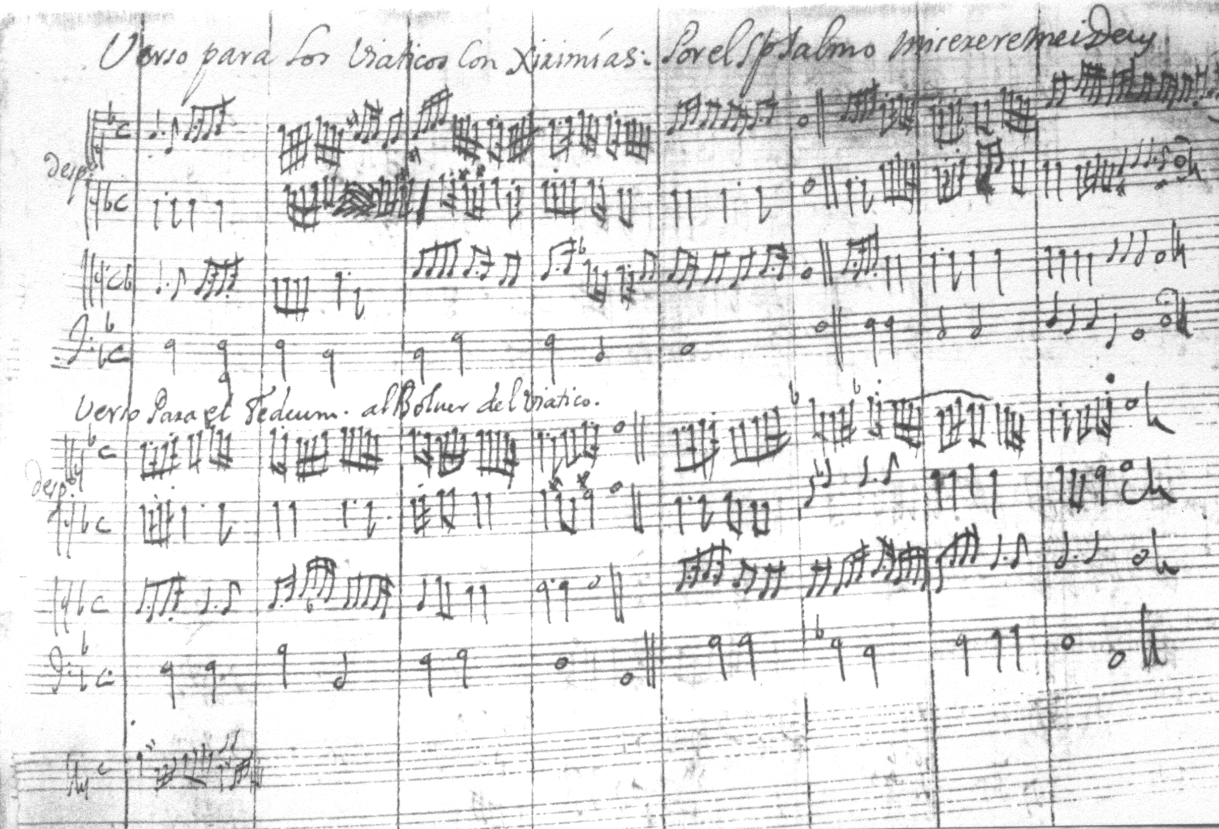 Composició per a quatre xeremies. Mitjan segle XVIII. Arxiu Parroquial de Santa Maria del Pi